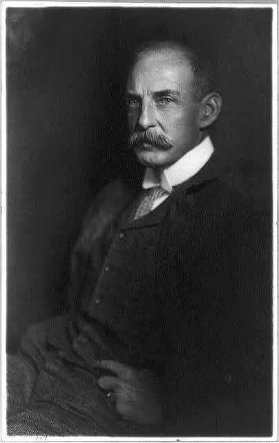 Francis Marion Crawford (1854 - 1909), an American writer